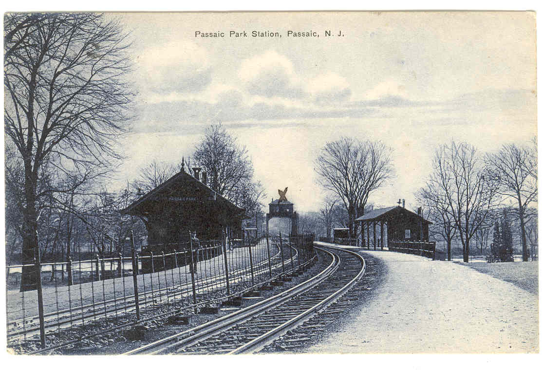 The former Passaic Park station in Passaic, New Jersey before the demolition of the building in 1922 in replacement for a new one. BE Drawbridge is also visible in the distance.